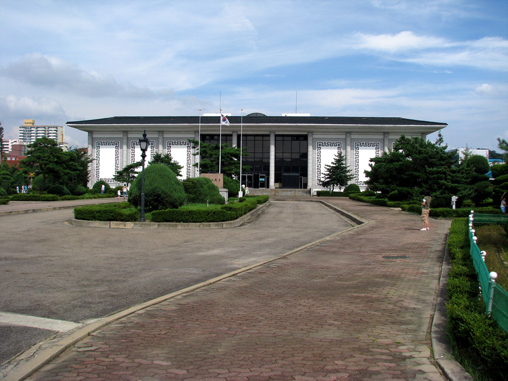 Korea Railroad Museum building